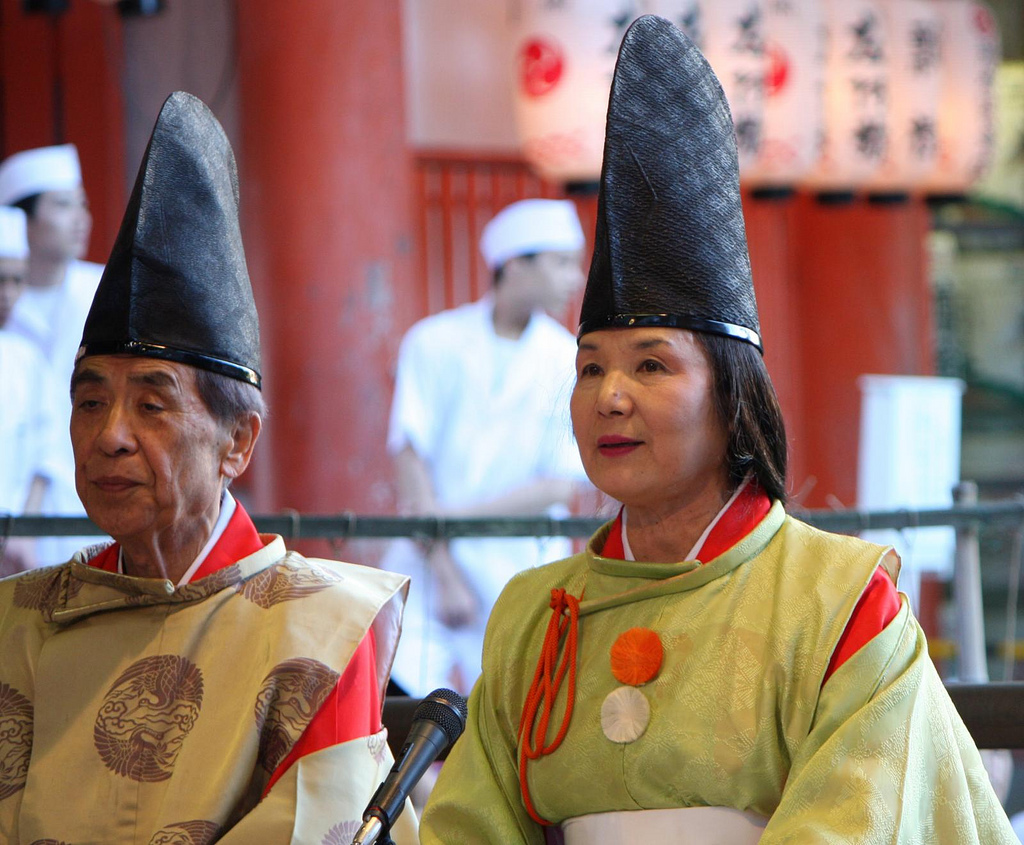 "Seen at a ritual at Yasaka shrine, when elderly people, dressed as Shinto priests, chanted songs, whilst younger priestesses performed a very slow dance Kagura."